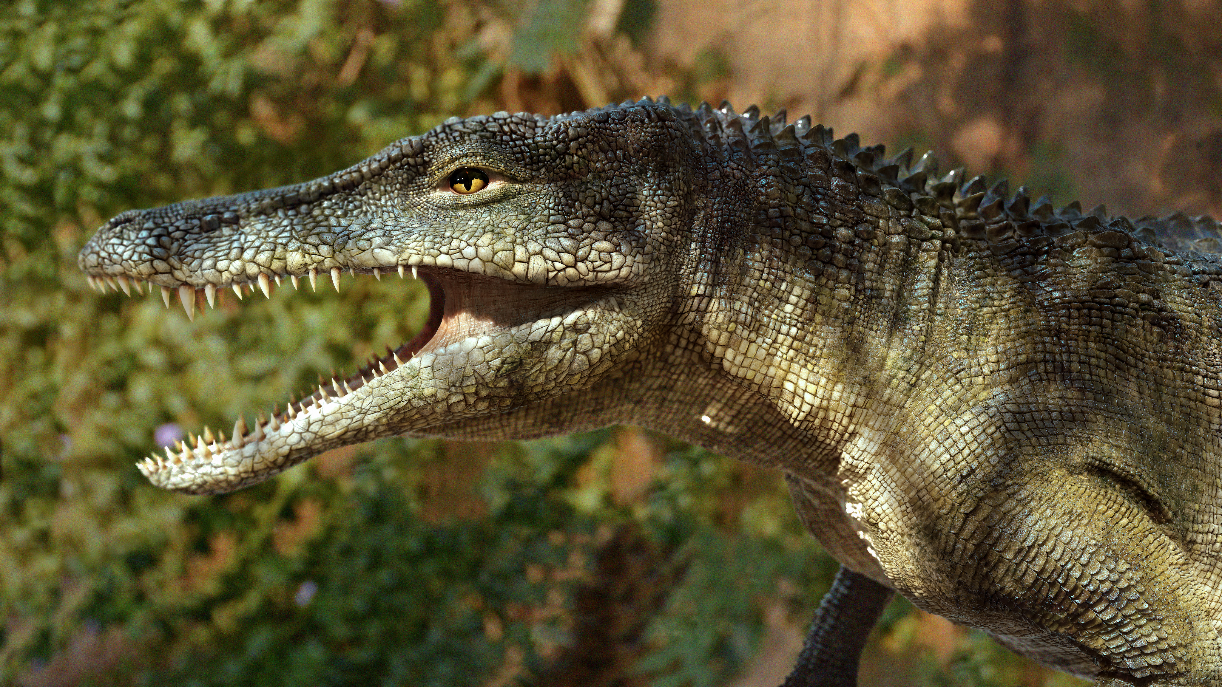 Life restoration of Carnufex carolinensis